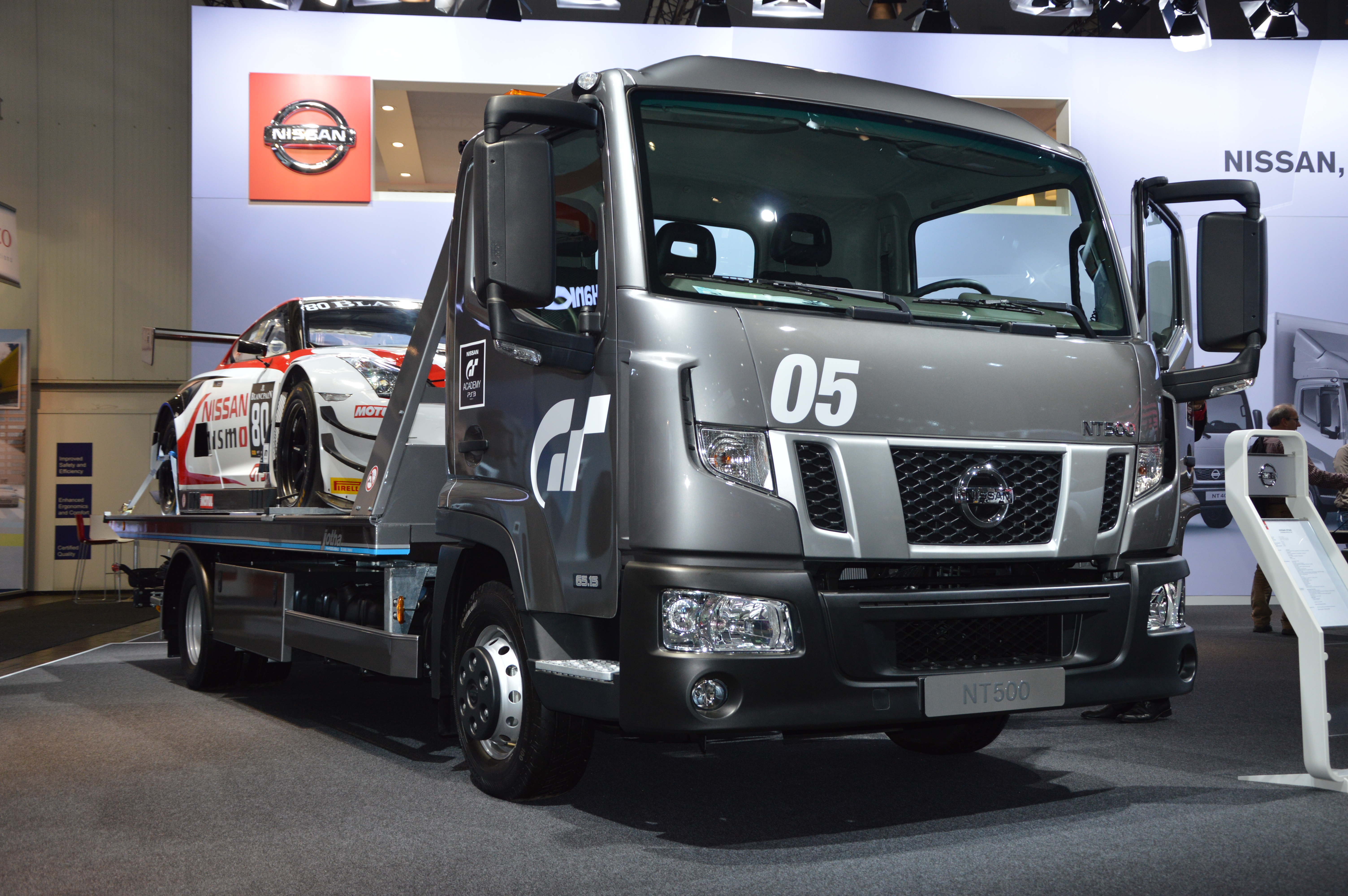 Nissan NT 500 tow truck with hydraulic displacement plateau. Photo taken at exhibition IAA 2014 in Hanover, Germany